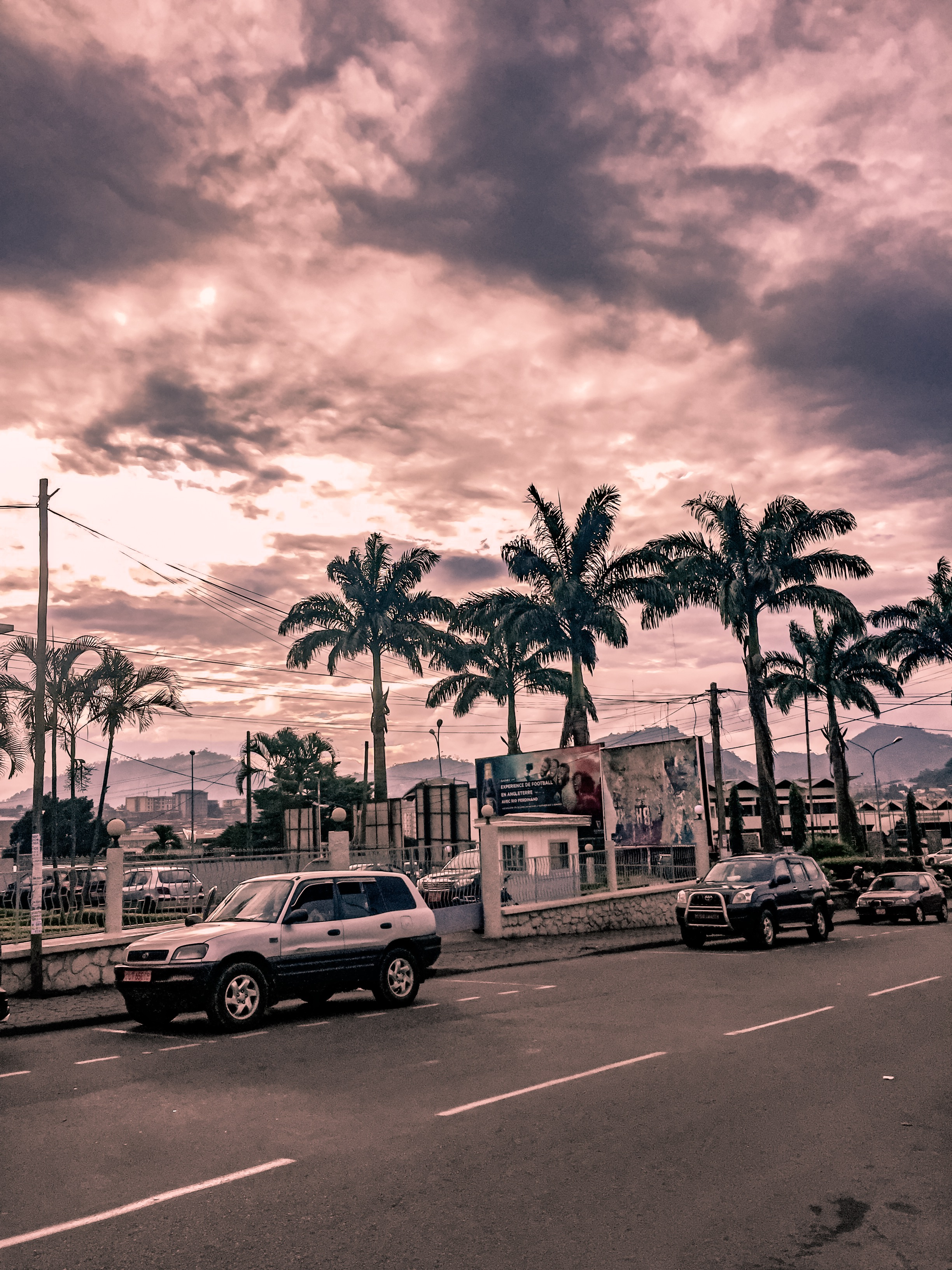 This is an image with the theme "Africa on the Move or Transport" from: Cameroon